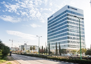 Cyberark Building Petach Tikva Israel